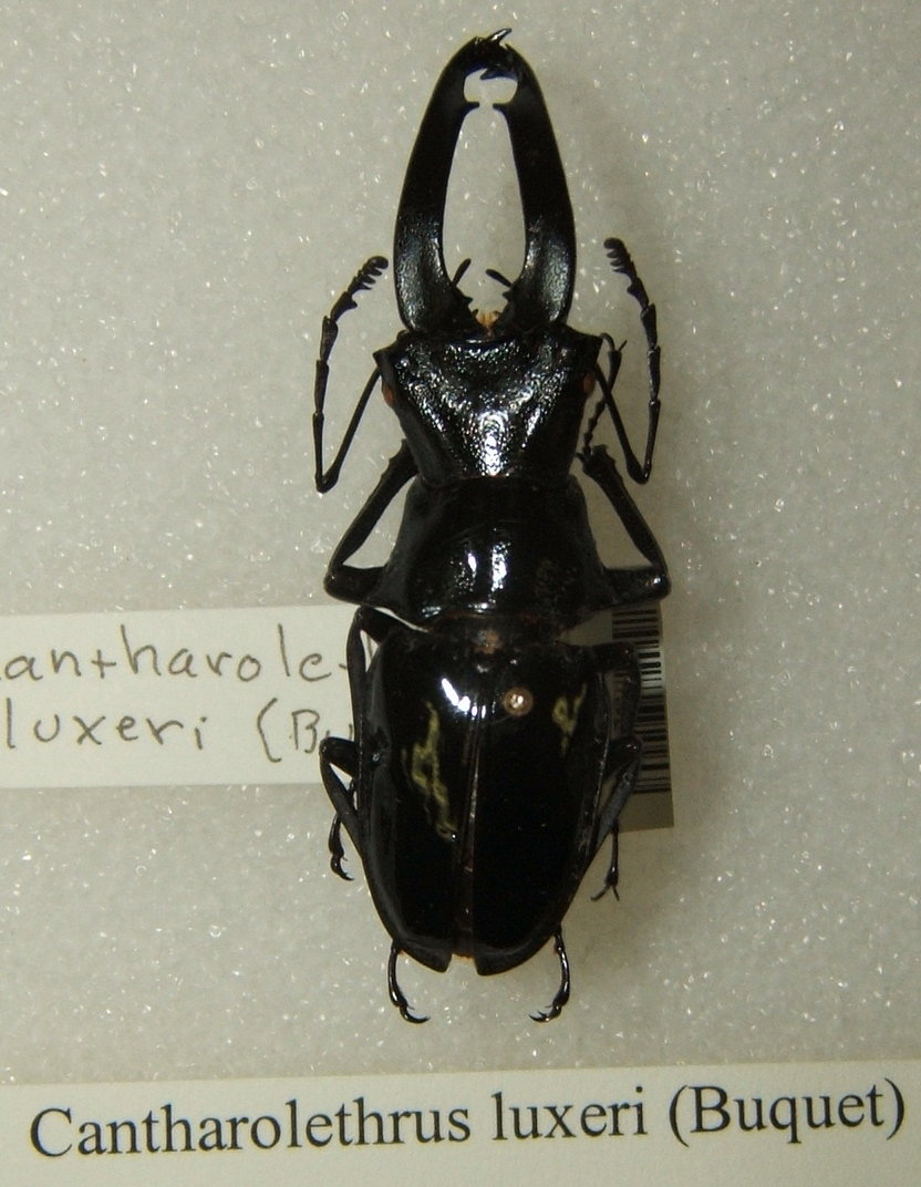 Cantharolethrus luxeri adult taken by Shawn Hanrahan at the Texas A&M University Insect Collection in College Station, Texas.